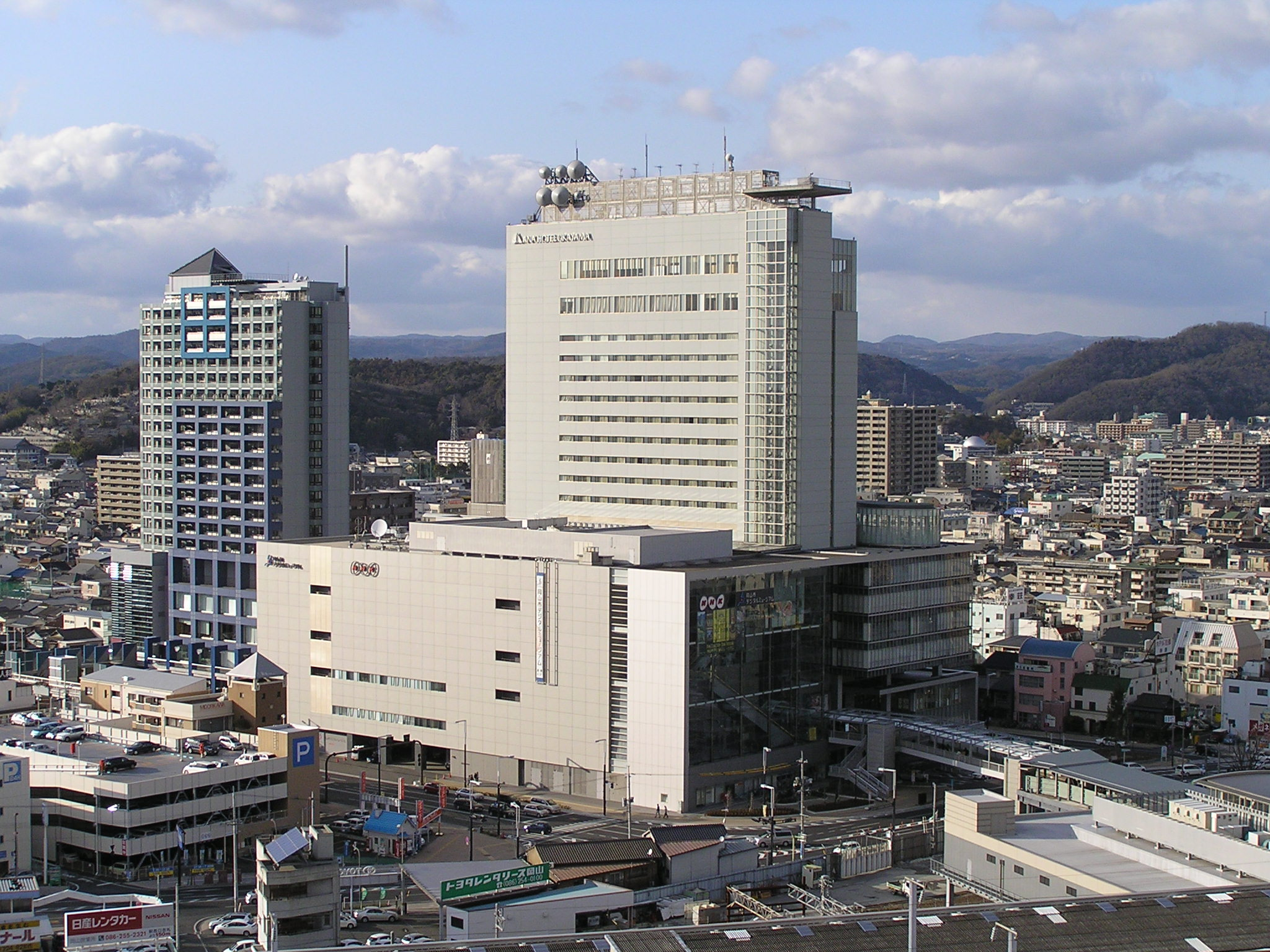 Lit City Bldg. and Forum City Bldg. at Okayama